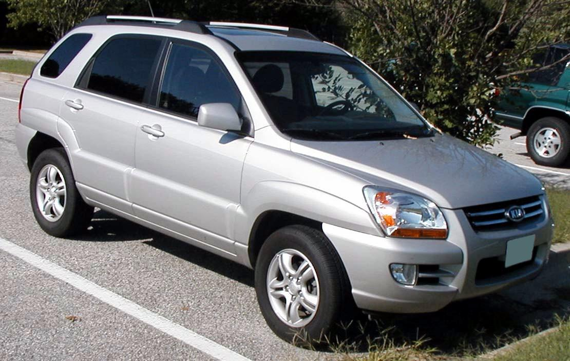 2005-2006 Kia Sportage photographed in USA.